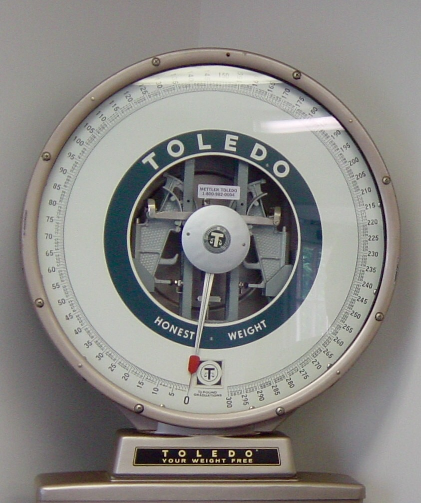 Dial face of a vintage Toledo scale